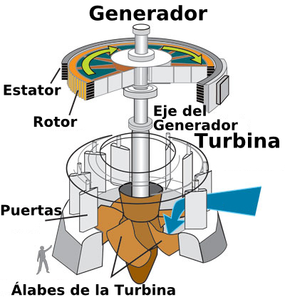 Hydraulic turbine and electrical generator, cutaway view.